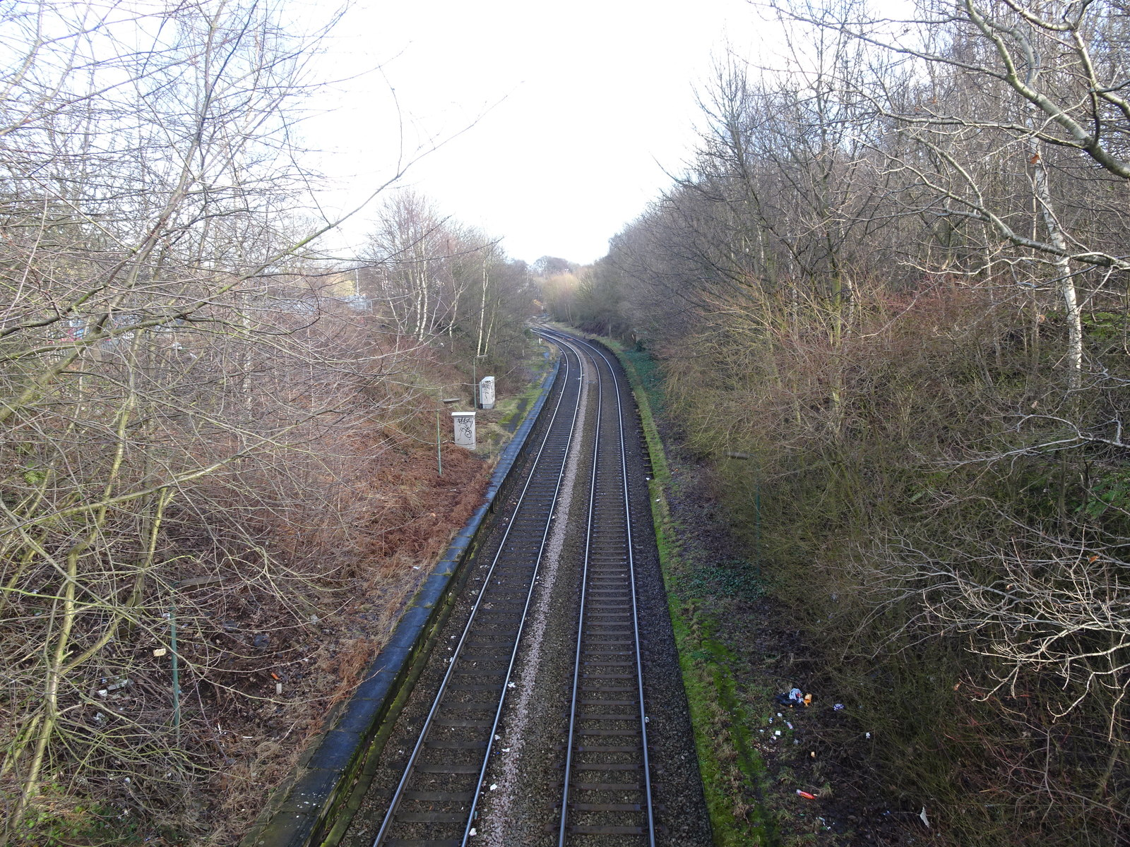 Opened in 1867 as Smethwick Junction by the Great Western Railway on its line from Birmingham Snow Hill to Stourbridge, this station closed in 1996. It was effectively replaced by Smethwick Galton Bridge, just 100m to the east and which straddles two railway lines. View east towards Galton Bridge and Birmingham. Both platforms were extant when this image was taken but everything else had been removed.